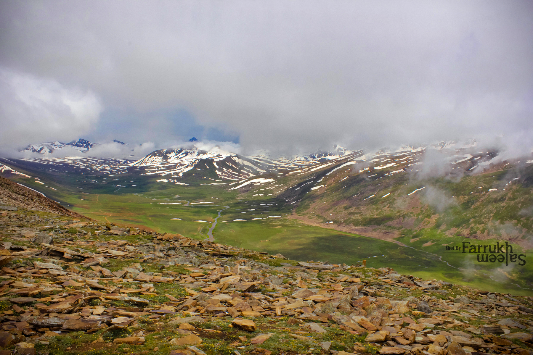 Babusar Pass, Pakistan